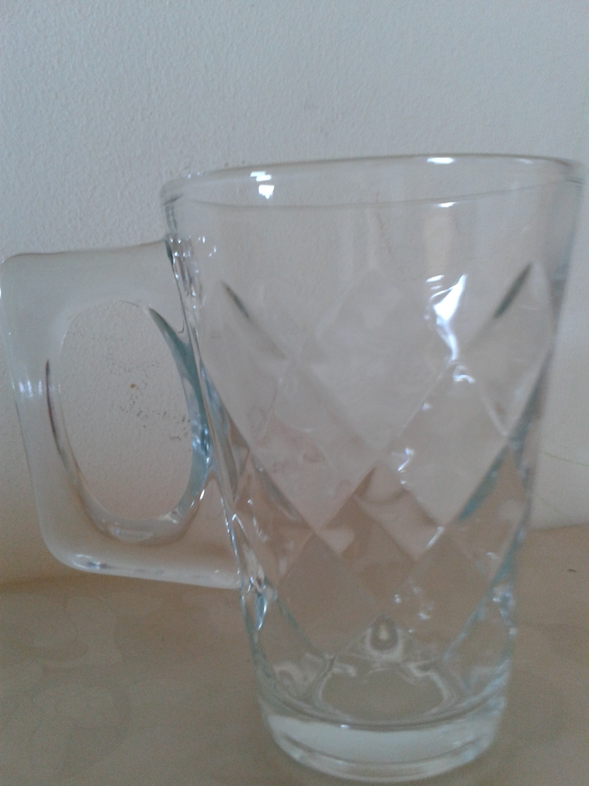 Glass cup